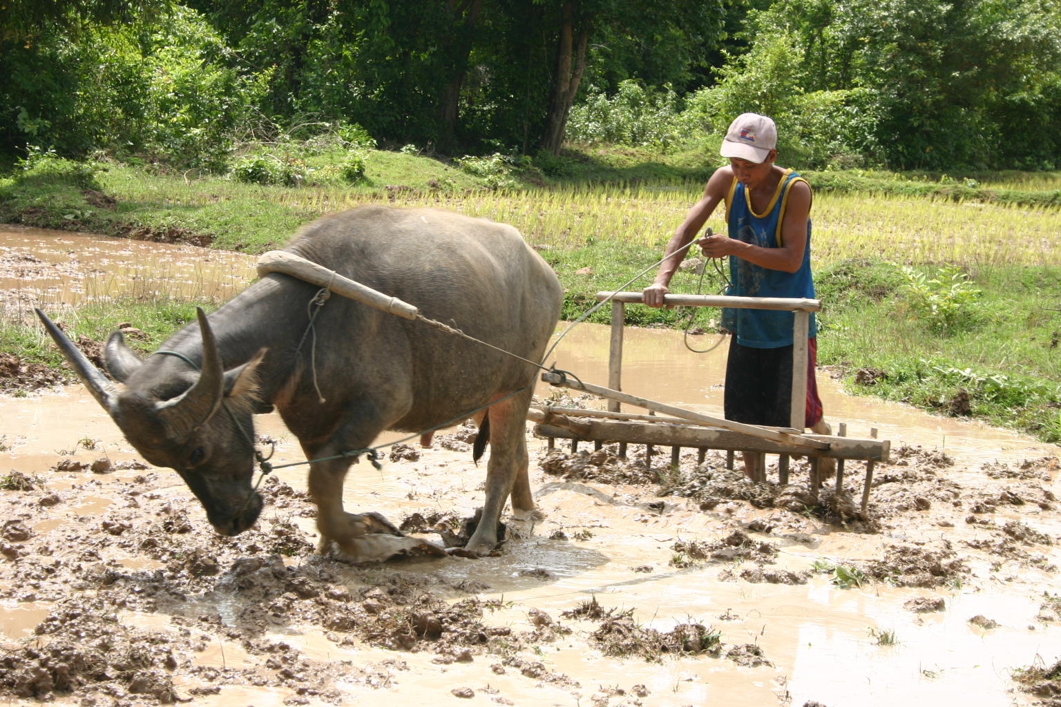 A Lao farmer and buffalo plow a field in Champassak province of Laos, using a traditional hand-made implement known as a kaat.